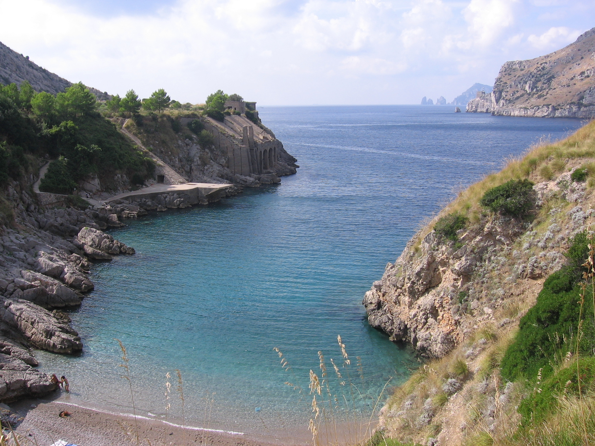 Ieranto Bay (Baia di Ieranto) at the western end of the Gulf of Salerno (nearly at the point where it joins the Gulf of Naples). The remains of the loading dock for the old stone quarry are on the left, and the small beach, maintained by the FAI (Fondo Ambiente Italiano, the Italian Environmental Fund), is on the bottom.